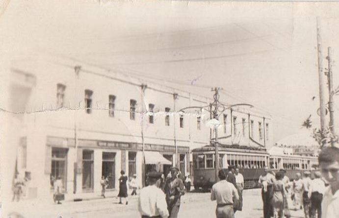 Old photo of Basin Street (nowadays Fuzuli Street)